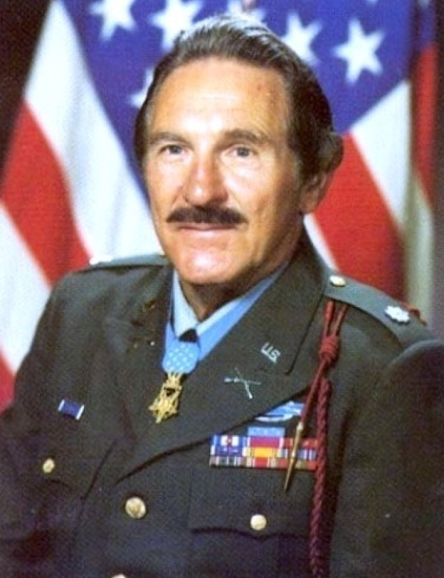 Lt Col. Matt Louis Urban after receiving Medal of Honor from President Jimmy Carter